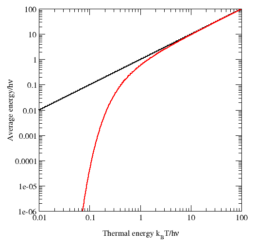 The figure plots the average energy of a quantum mechanical oscillator (in red) for different temperatures, and compares it with the value predicted by the equipartition theorem (in black). Made by me today (18 April 2007) using my own GPL software, and plotted using xmgrace, another GPL program. Released by me today under the GFDL.